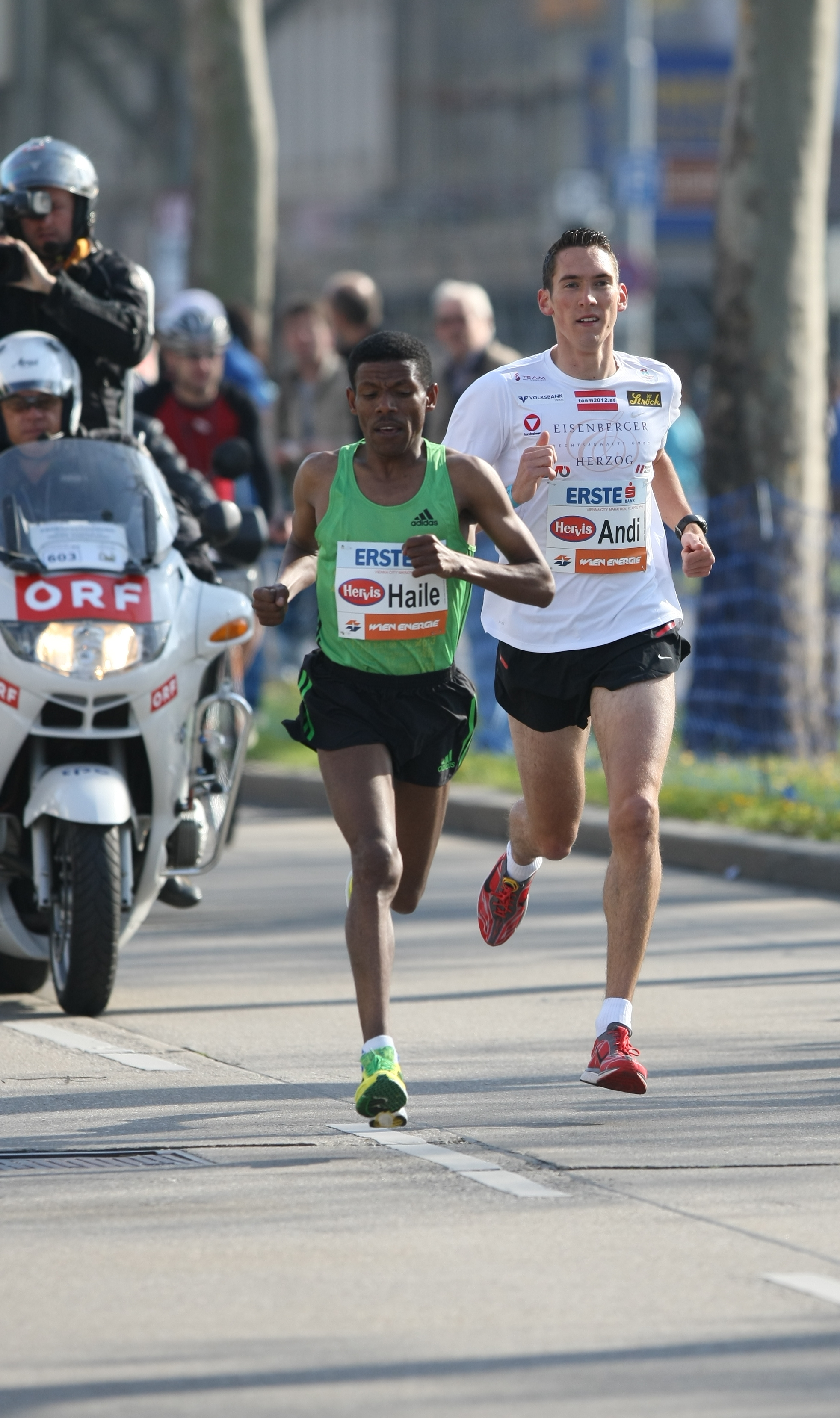 Andreas Vojta beside Haile Gebrselassie at the Vienna City Marathon 2011